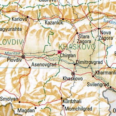 part of the map Bulgaria_1994_CIA_map.jpg location of the bulgarian city of Tschirpan - west ov Plovdiv